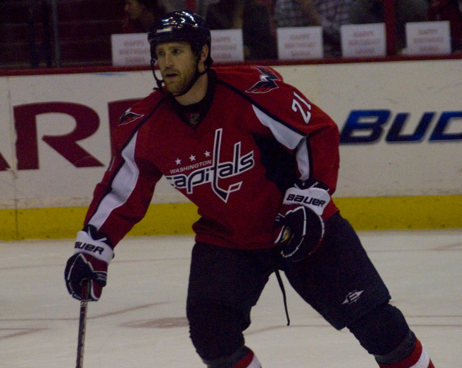 ERI_5318 Photo taken on March 3, 2011 by Sarah Connors. St. Louis Blues vs. Washington Capitals – National Hockey League (NHL) This photo also appears in sarah_connors' Flickr photostream Blues @ Caps, 3/3/11 (Set: 134) Flickr Tags: St. Louis Blues, Washington Capitals, Capitals, Caps, Blues, hockey, icehockey, NHL, Verizon Center